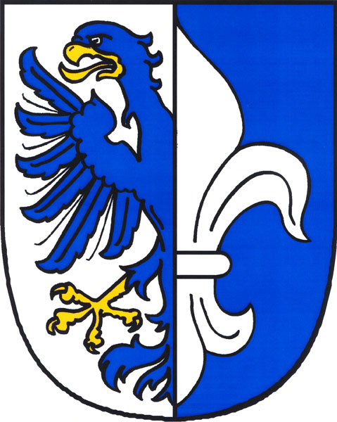 Coat of arms with eagle heraldically dimidiated with fleur-de-lys